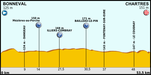 Profil of the 19th stage of the Tour de France 2012